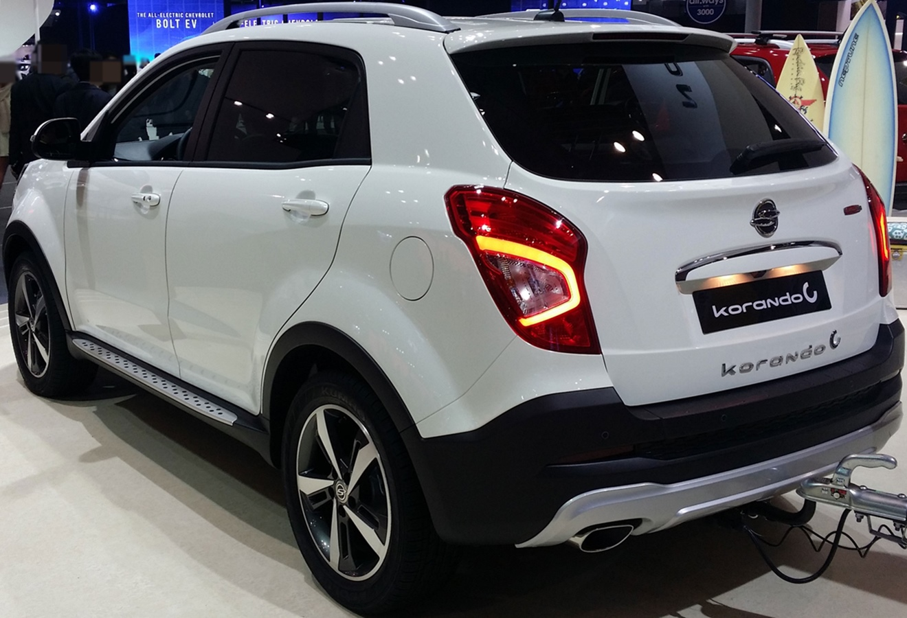 SsangYong New Style Korando C